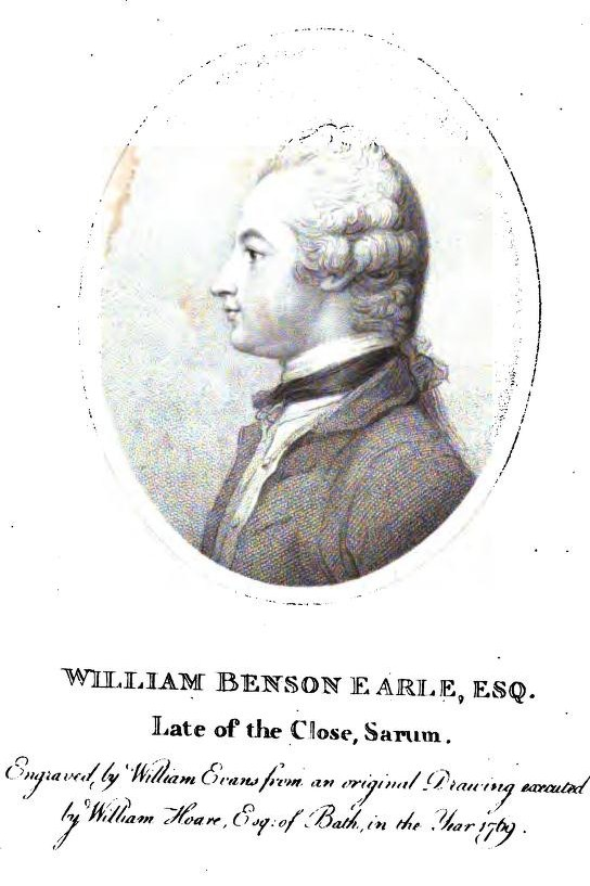 Portrait of William Benson Earle (1740–1796), English philanthropist.